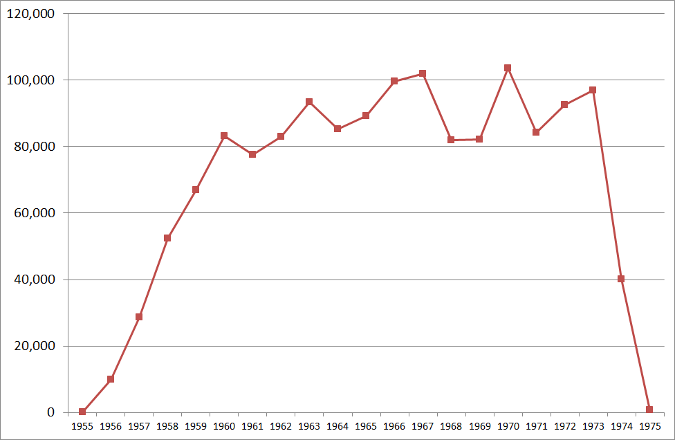 Excel chart of Citroen DS production. Data used from article.